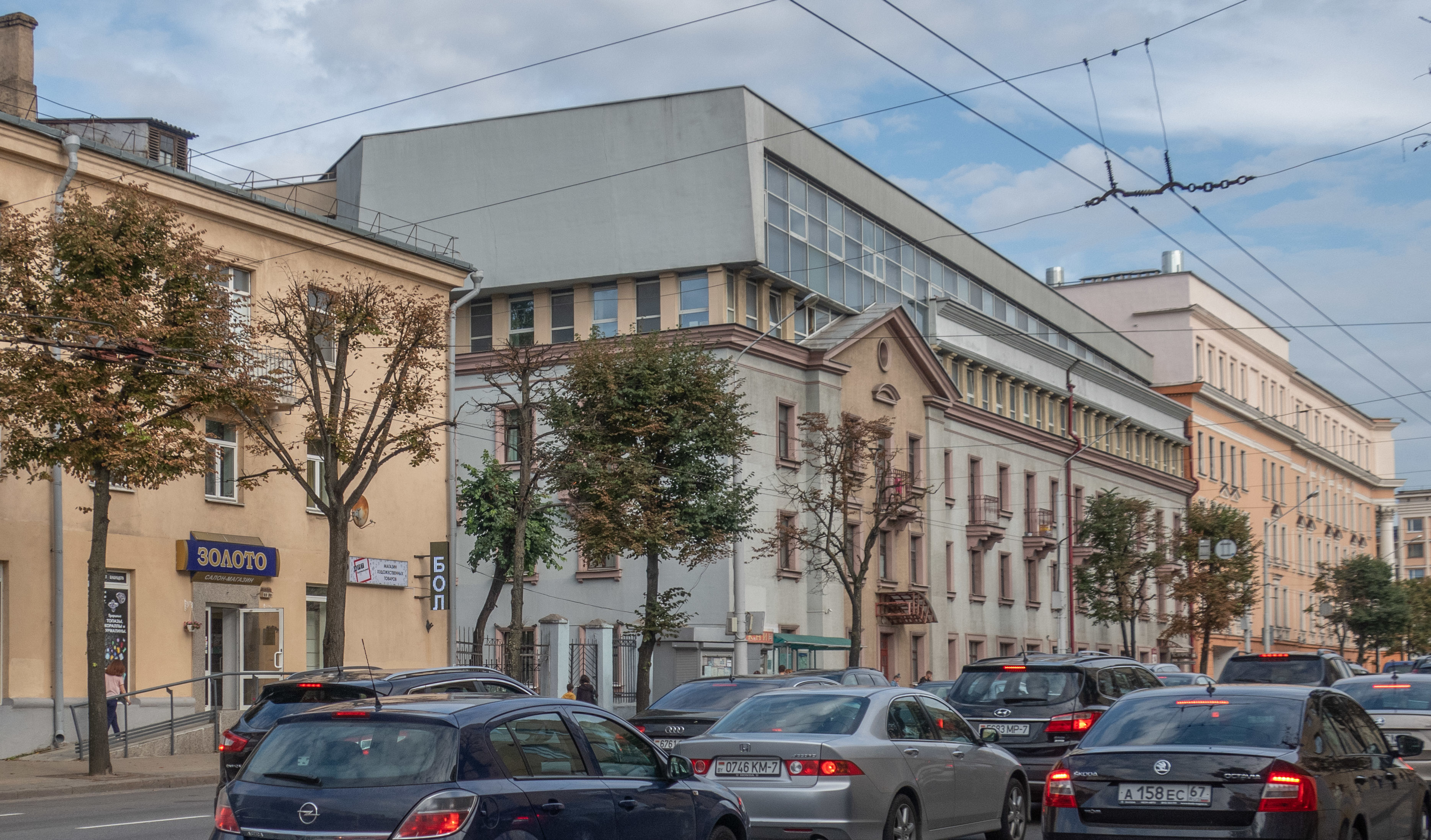 Surhanava street. Minsk, Belarus